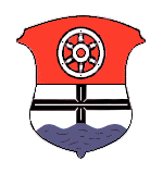 Coat of Arms of Dorfprozelten